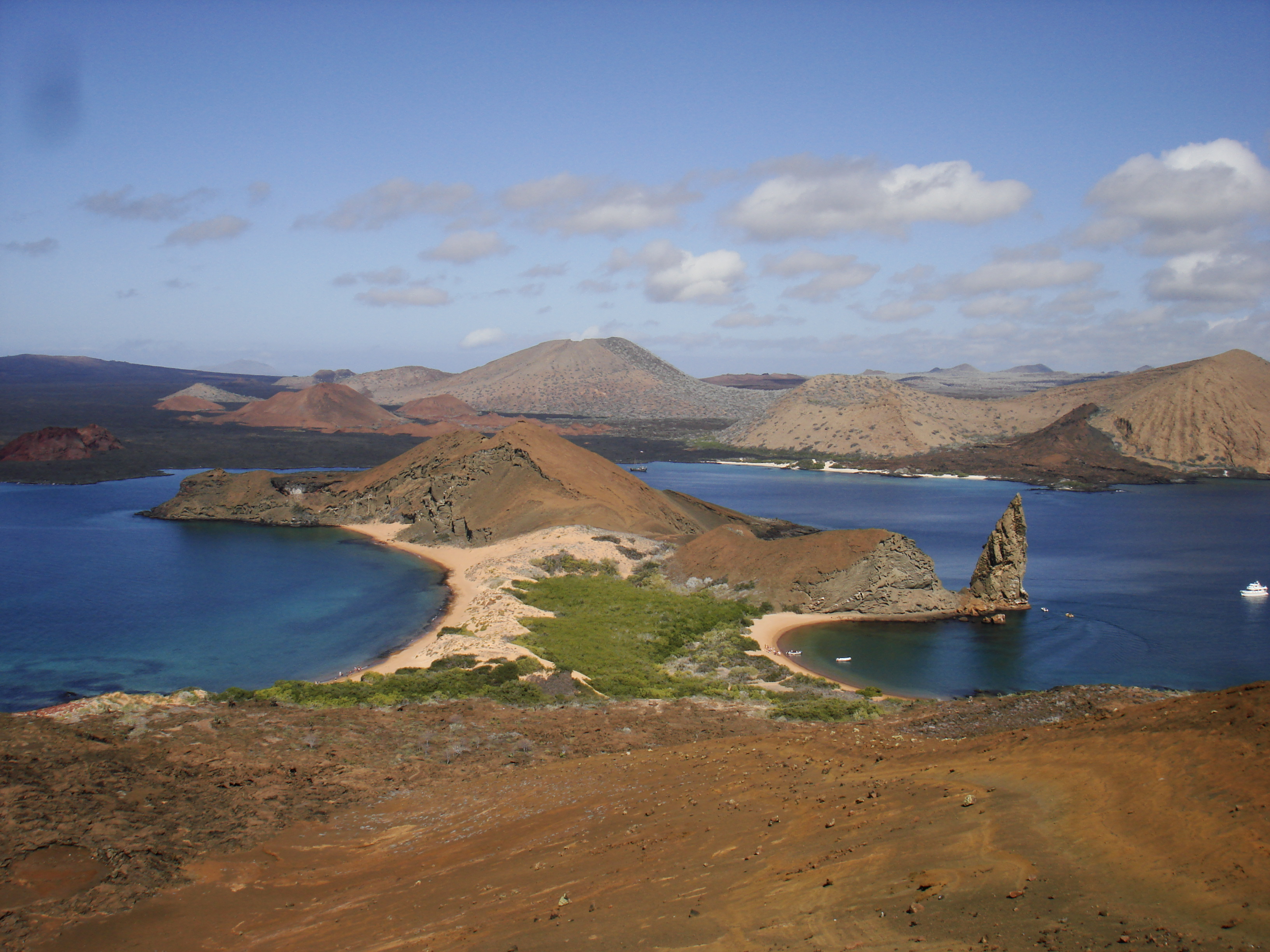 Bartolomé Island view, Galapagos Islands. Pinnacle Rock is seen at right.